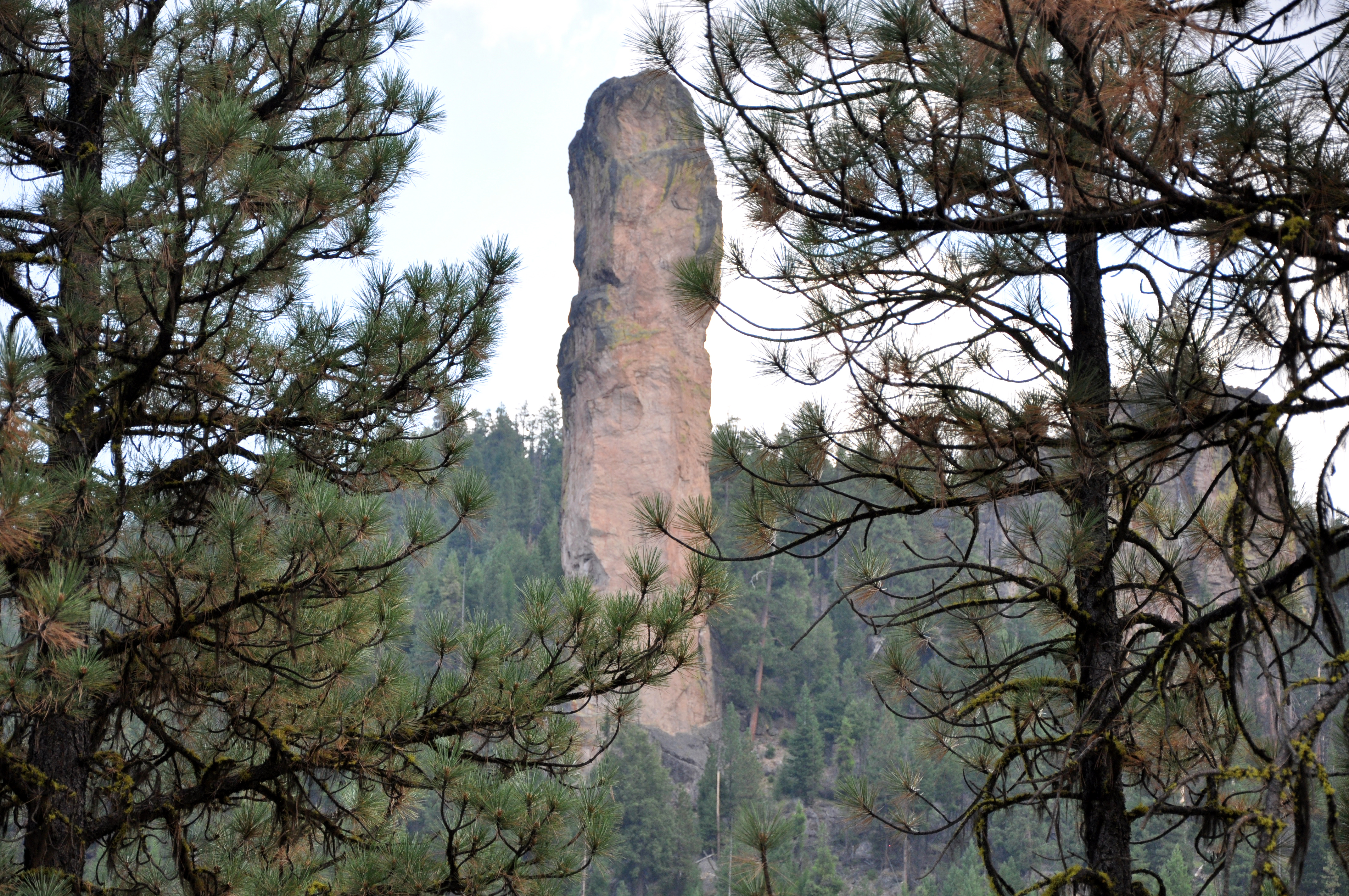 Steins Pillar near Prineville in the U.S. state of Oregon. The pillar, in the Ochoco Mountains, is an eroded remnant of volcanic ash flows that hardened into rock. According to the fifth edition of Geology of Oregon (1999) by Elizabeth L. Orr and William N. Orr, p. 42, the pillar is 350 feet (110 m) high and 120 feet (37 m) in diameter.